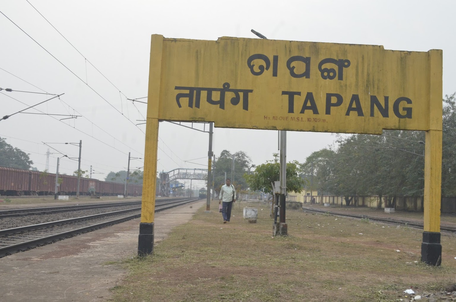 This is the Picture of Tapang railway station